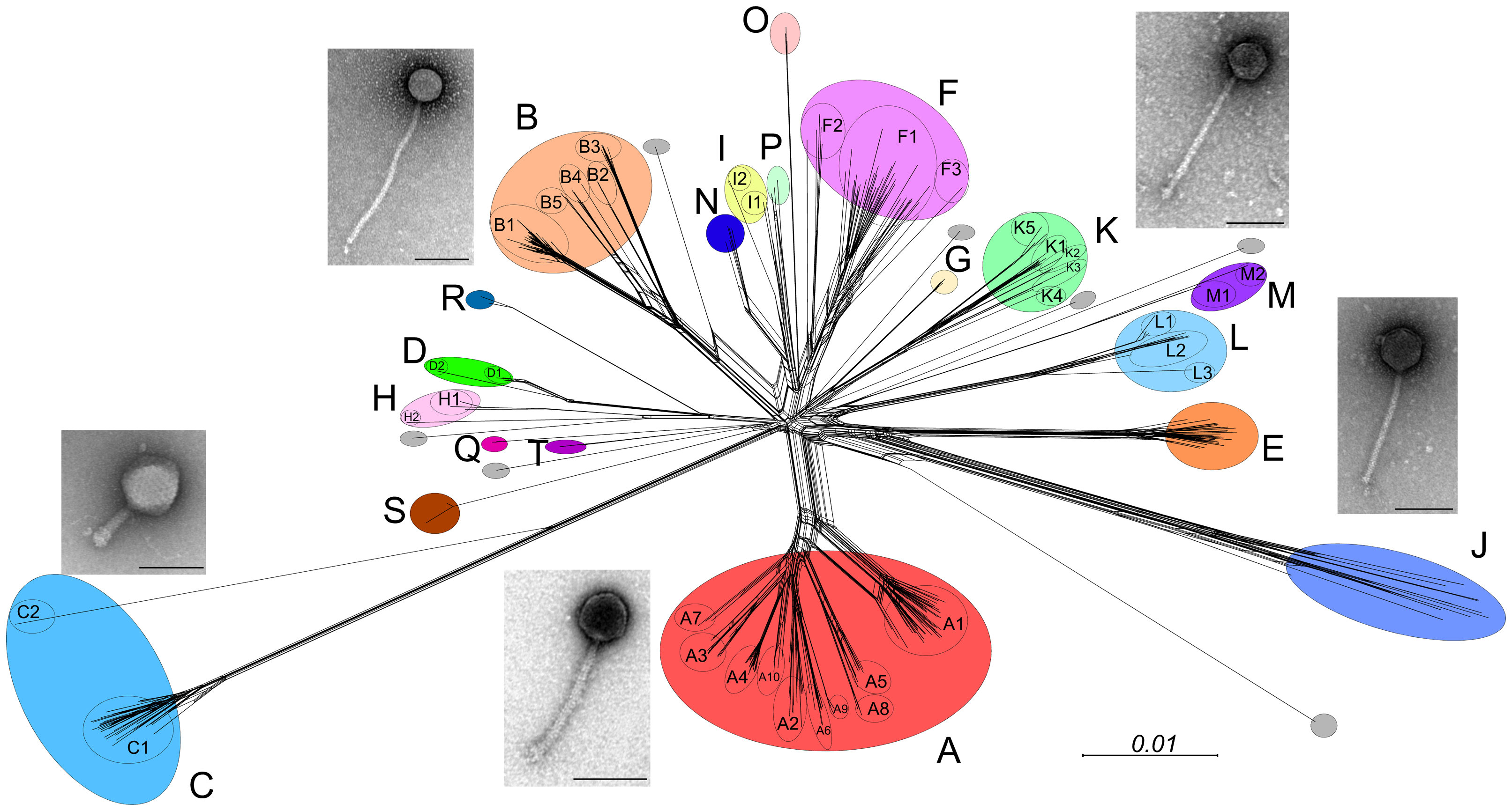 Diversity of mycobacteriophages based on 471 sequenced genomes compared according to their shared gene contents. The relationships are displayed using Splitstree. From Hatfull GF (2014) Mycobacteriophages: Windows into Tuberculosis. PLoS Pathog 10(3): e1003953. Figure 1 (journal.ppat.1003953.g001.png)